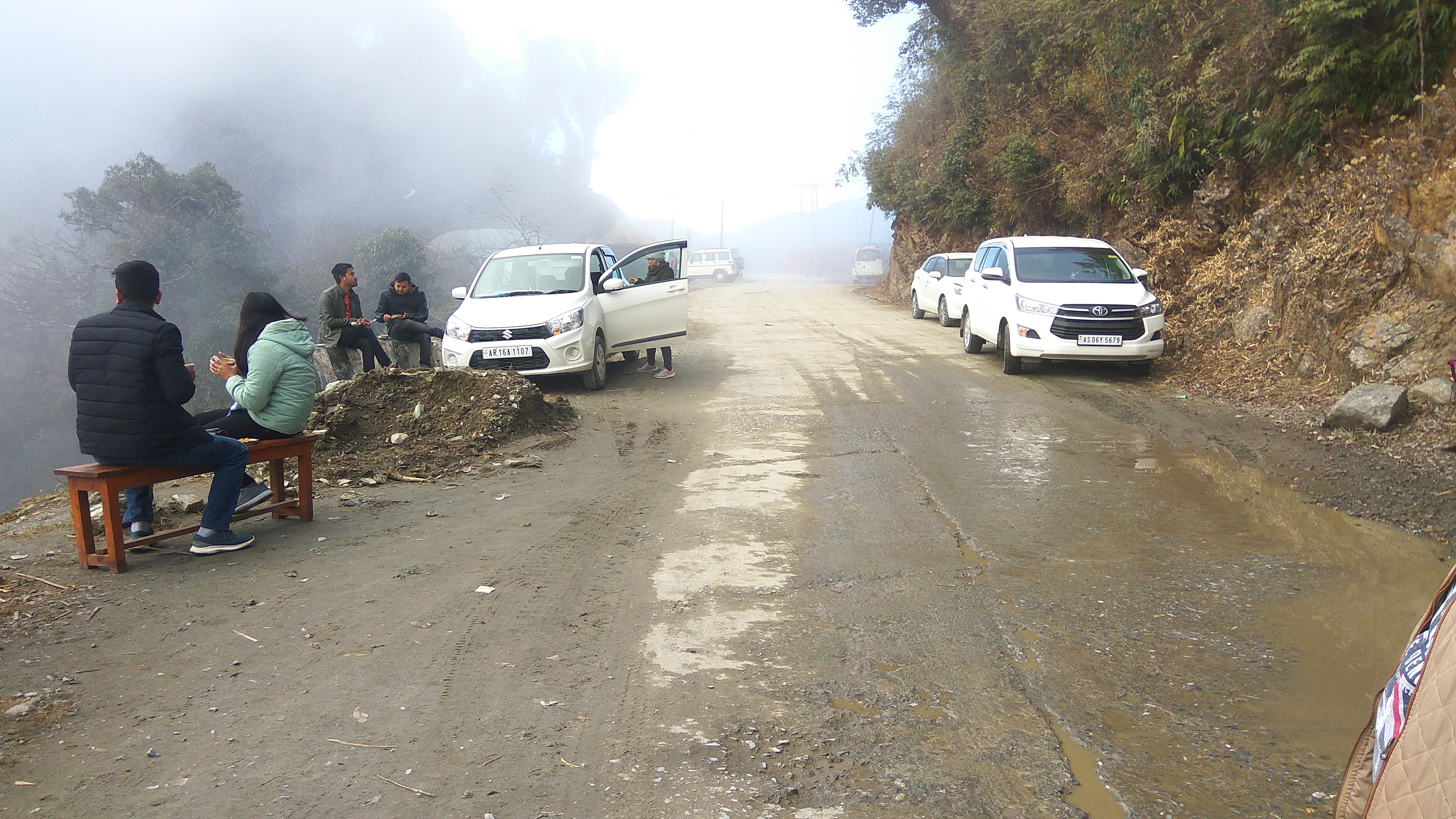 mayodia 9